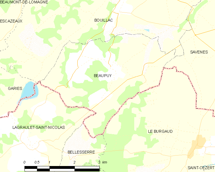 Map of French municipality Beaupuy